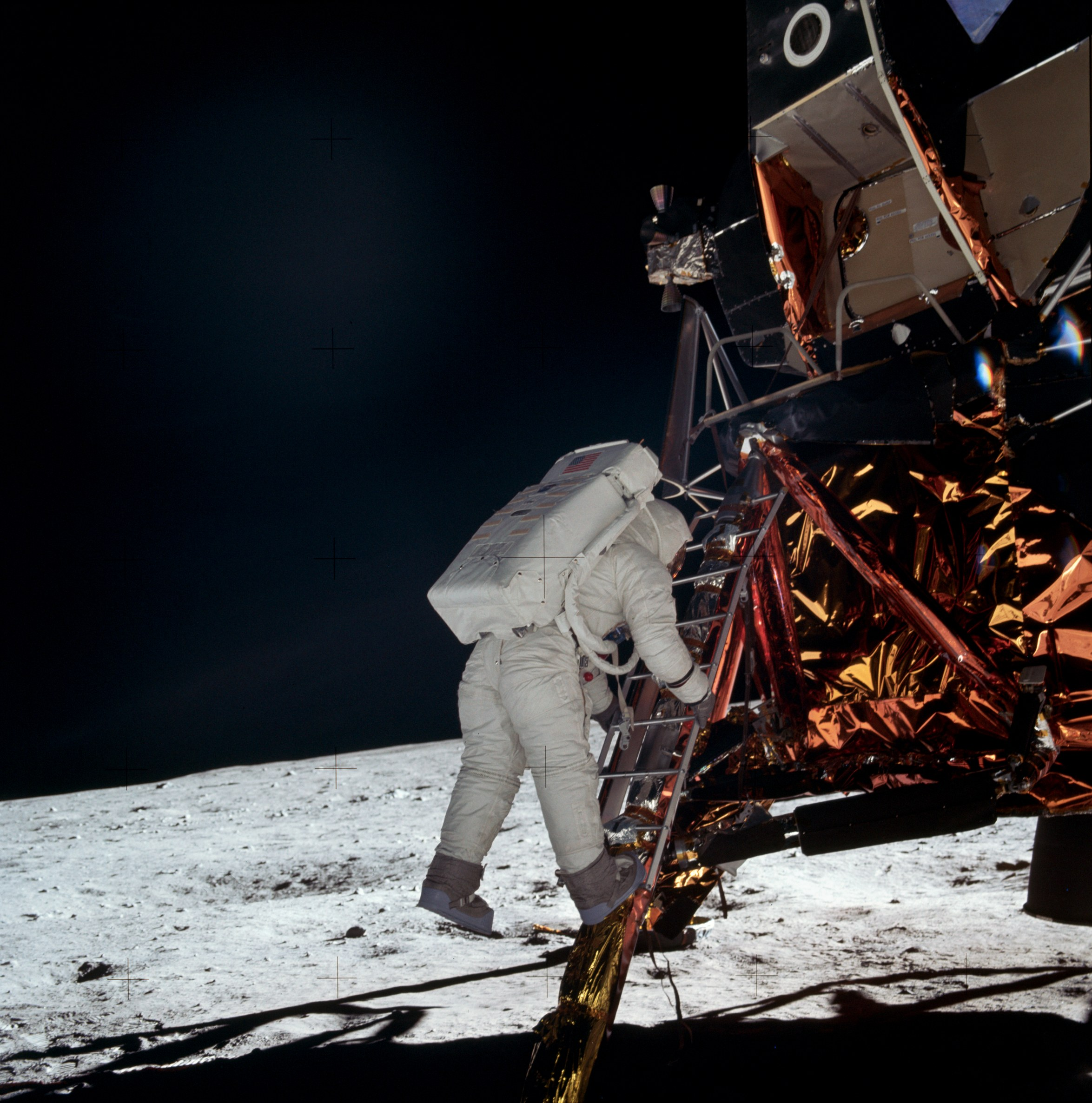 Apollo 11 astronaut Edwin E. Aldrin, Jr. leaves the Lunar Module Eagle to take his first steps as the second man on the moon.